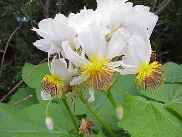 Species: Sparmannia africana Family: Tiliaceae Image No. 1